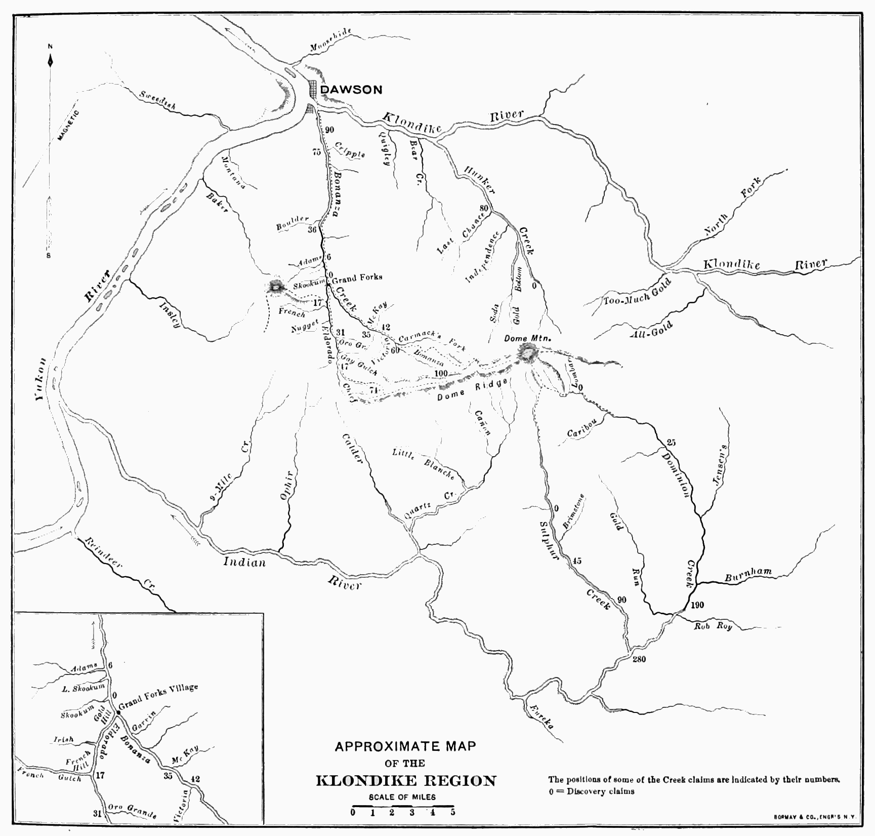 Map of the Klondike region